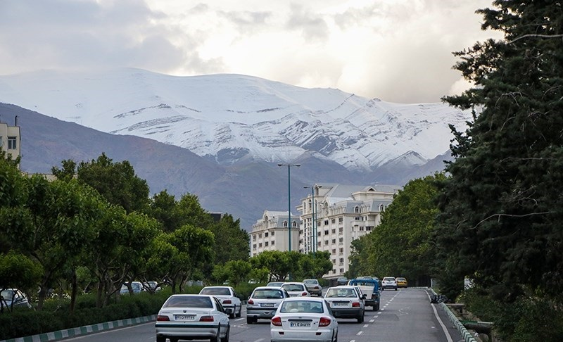 Shahrak-e Gharb